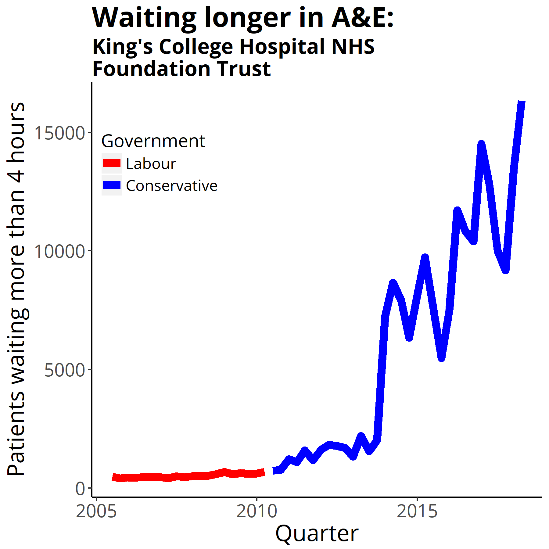 Four-hour target in the emergency department quarterly figures from NHS England Data from